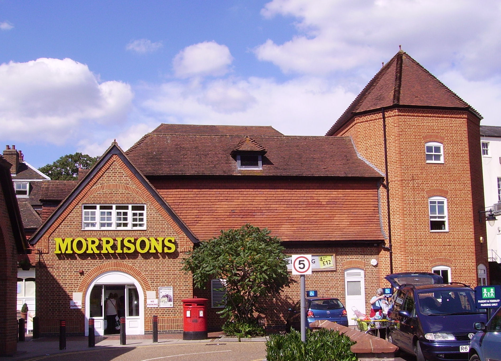 view of Reigate, United Kingdom